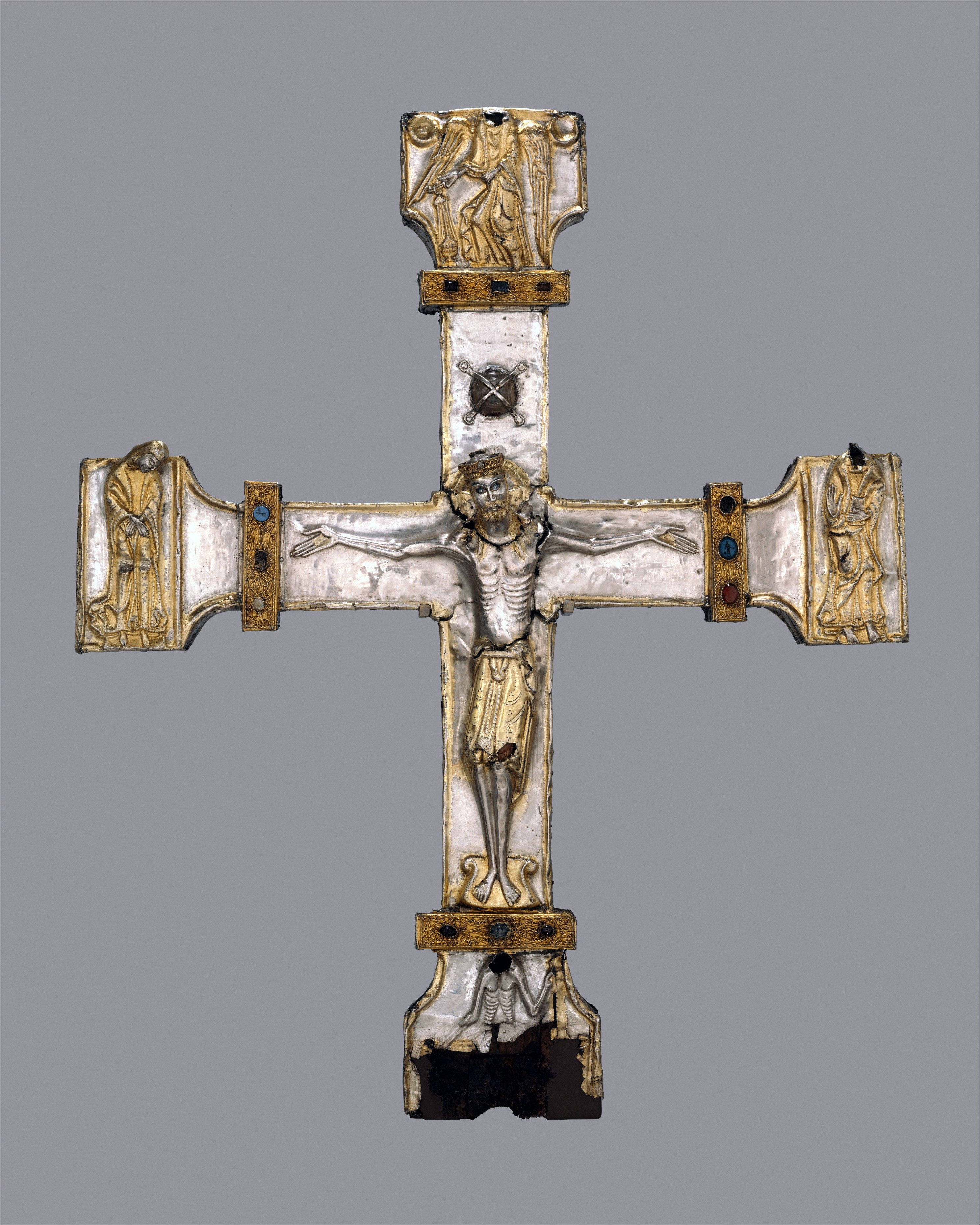 Spanish; Cross; Metalwork-Silver